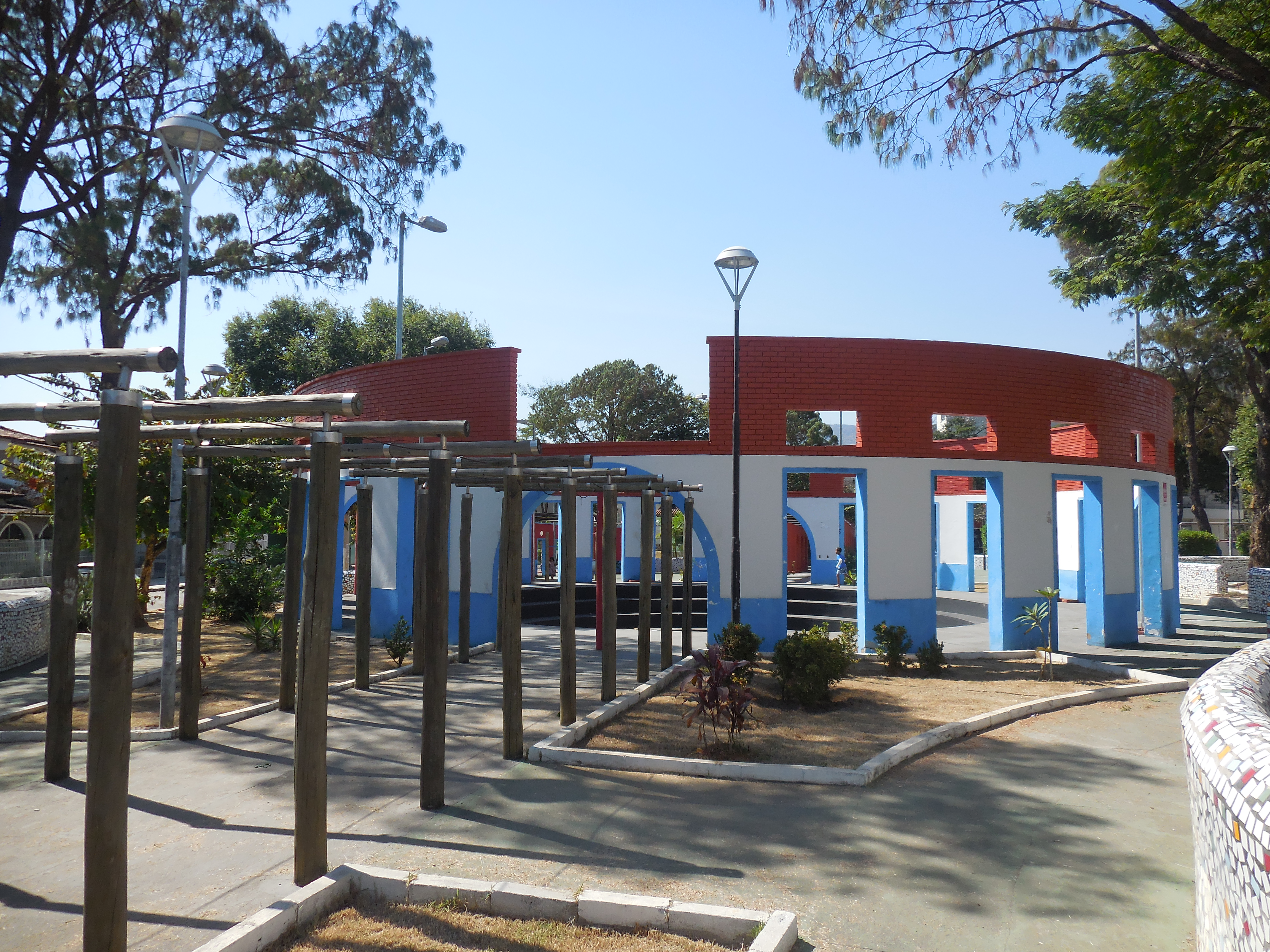 The Coliseu square, in Timóteo, Minas Gerais, Brazil.